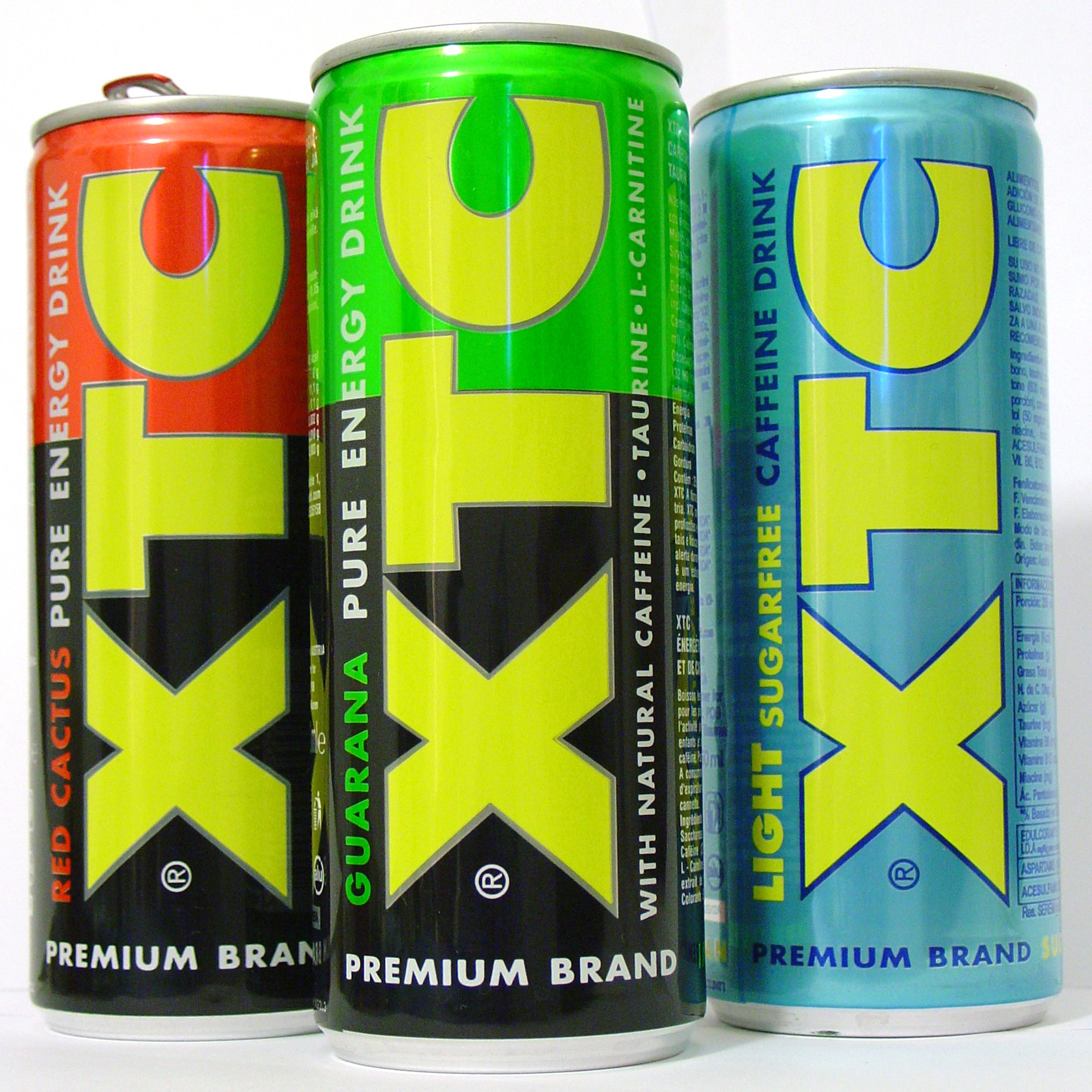 Cans of XTC.